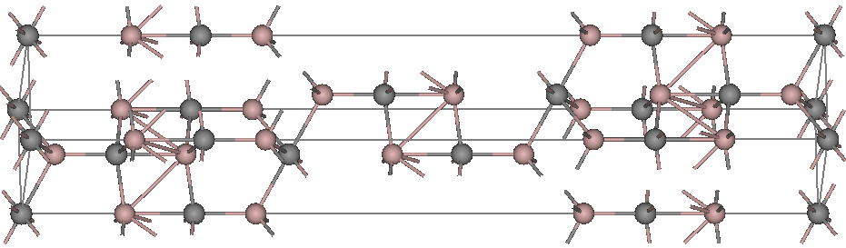 Structure of aluminium carbide Al4C3. Grey atoms are carbons. The Crystal Structure and Chemical Properties of U2Al3C4 and Stucture Refinement of Al4C3. T. M. Gesing and W. Jeitschko, Z. Naturforsch. 50b, 196-200 (1995).